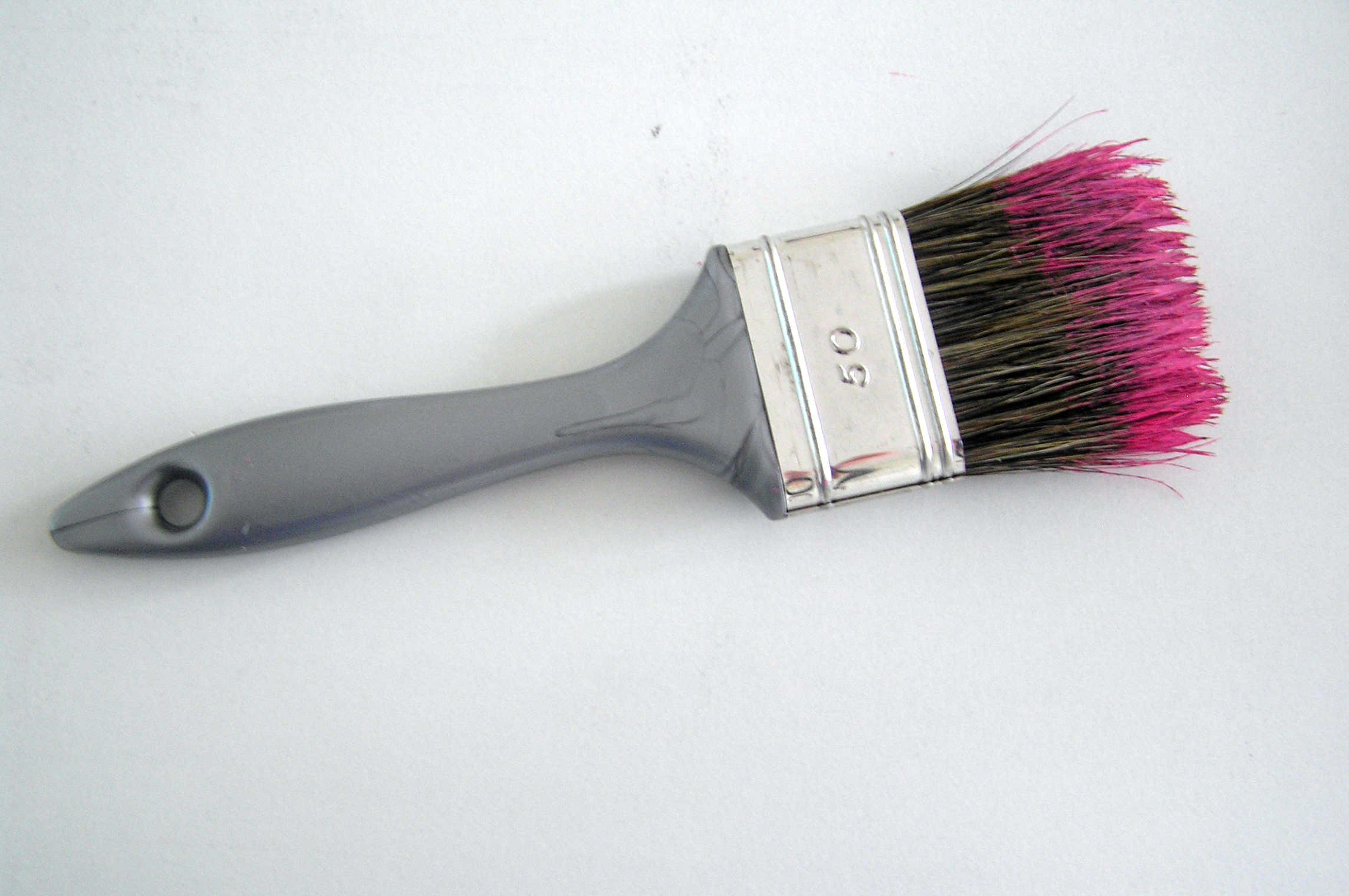 Roze kwast.